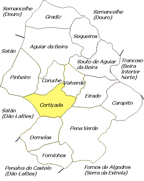 Map of Cortiçada parish in Portugal. Author: Kullanıcı:Mskyrider.